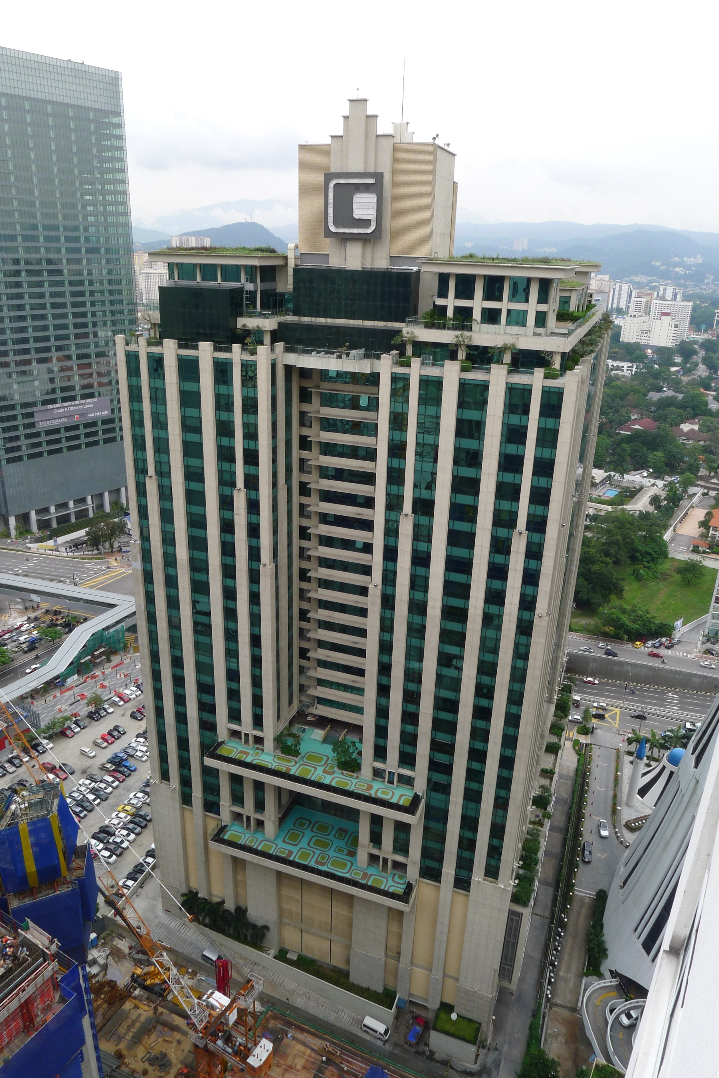 G Tower in Kuala Lumpur.